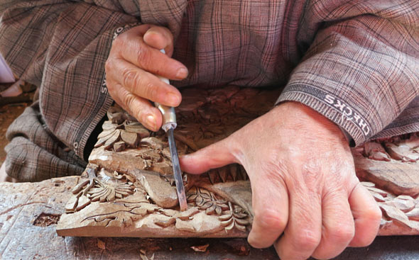 Kashmiri handicrafts, credited to